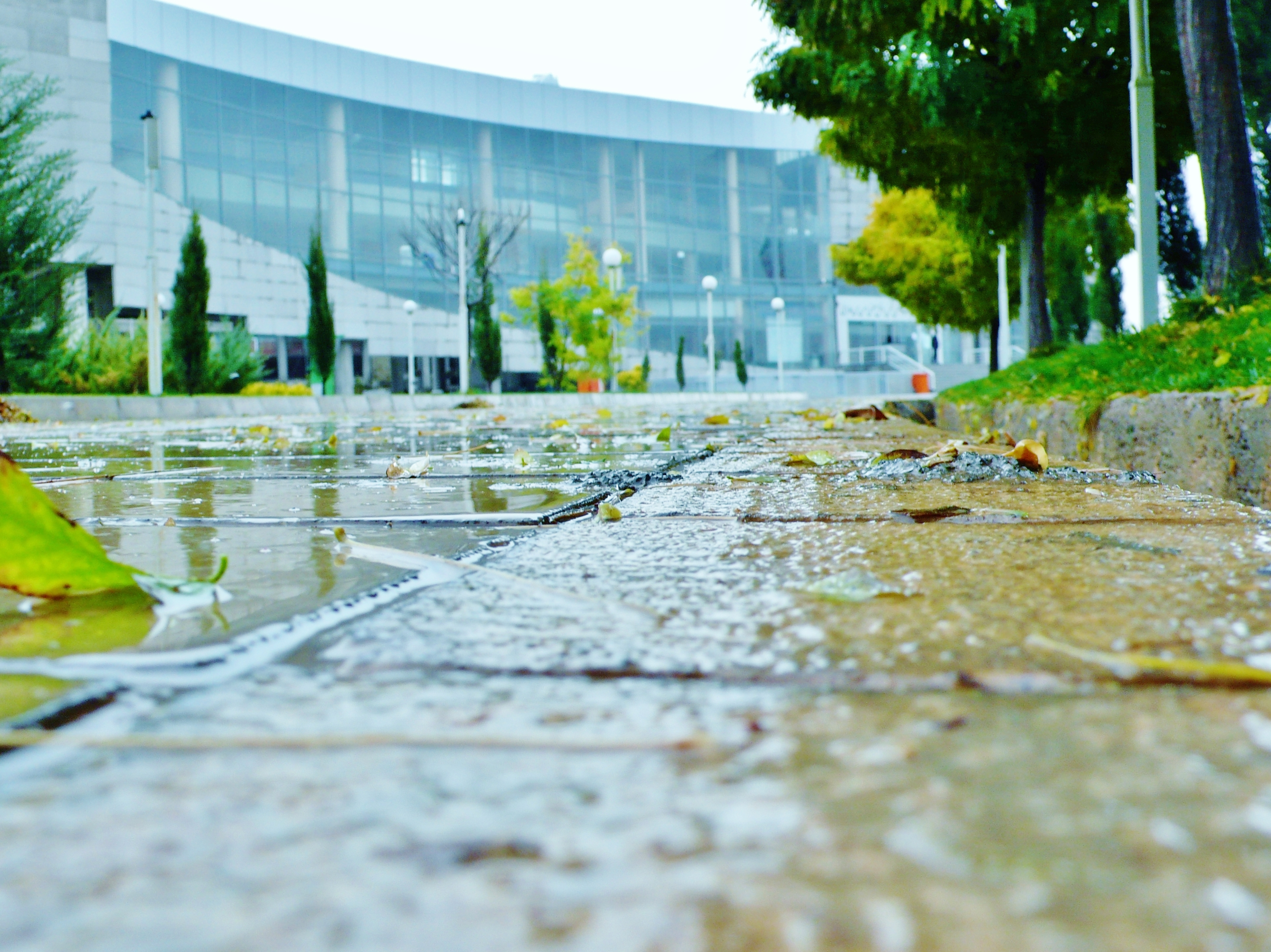 School seen in 2013